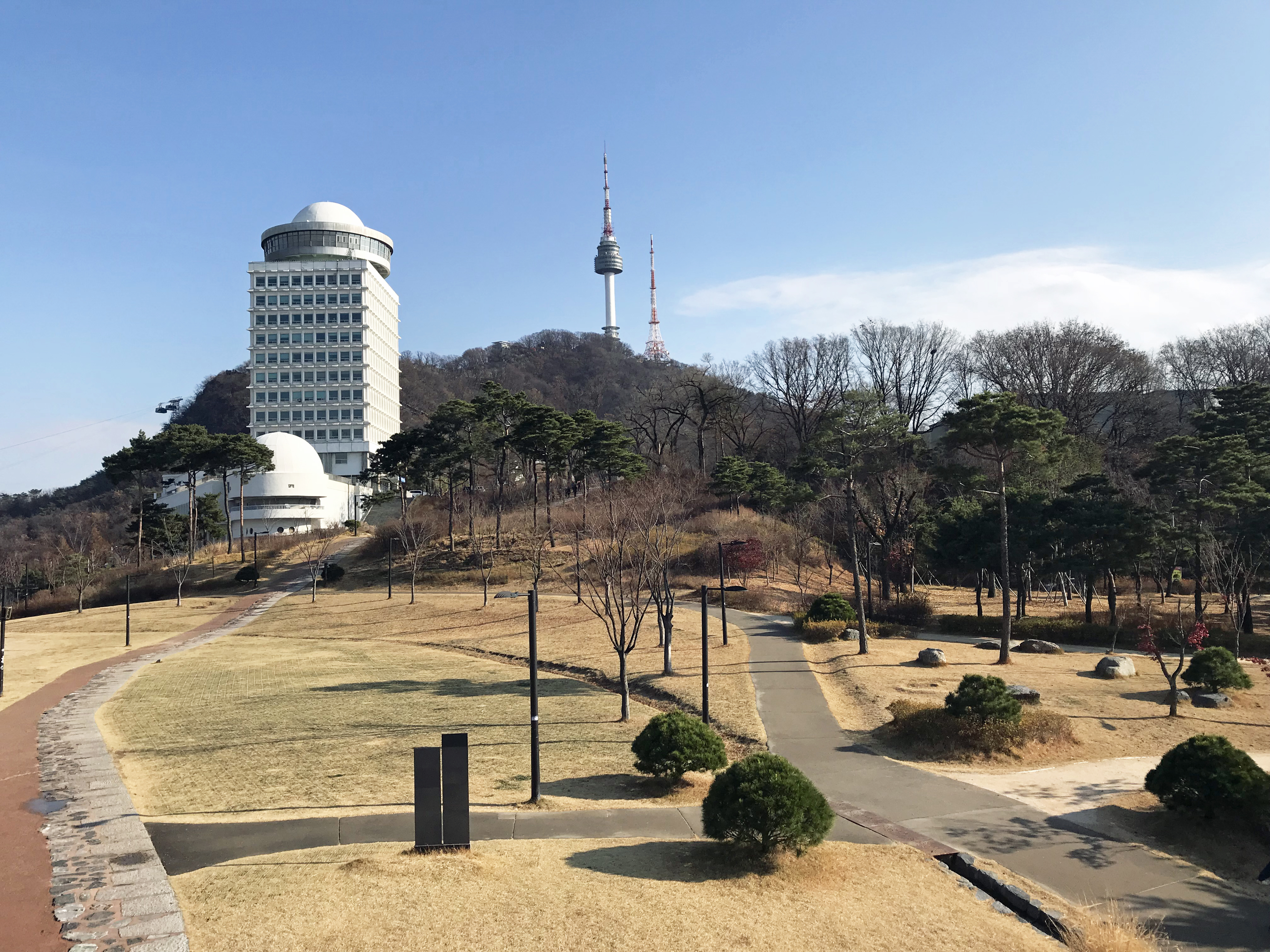 View to the N-Seoul Tower. Blick auf den N-Seoul Tower vom Namsan Park. You're welcome to use this picture free of charge, as long as you follow the license terms. As a matter of courtesy a link (dofollow links are welcome!) to is much appreciated. Thank you! ————————–—–—–—–—–—–—–—–—–—–—–—–—–—–—– Du kannst dieses Bild gemäß der Lizenzbestimmungen unentgeltlich nutzen. Über eine Verlinkung (dofollow am liebsten) auf freuen wir uns. Danke!